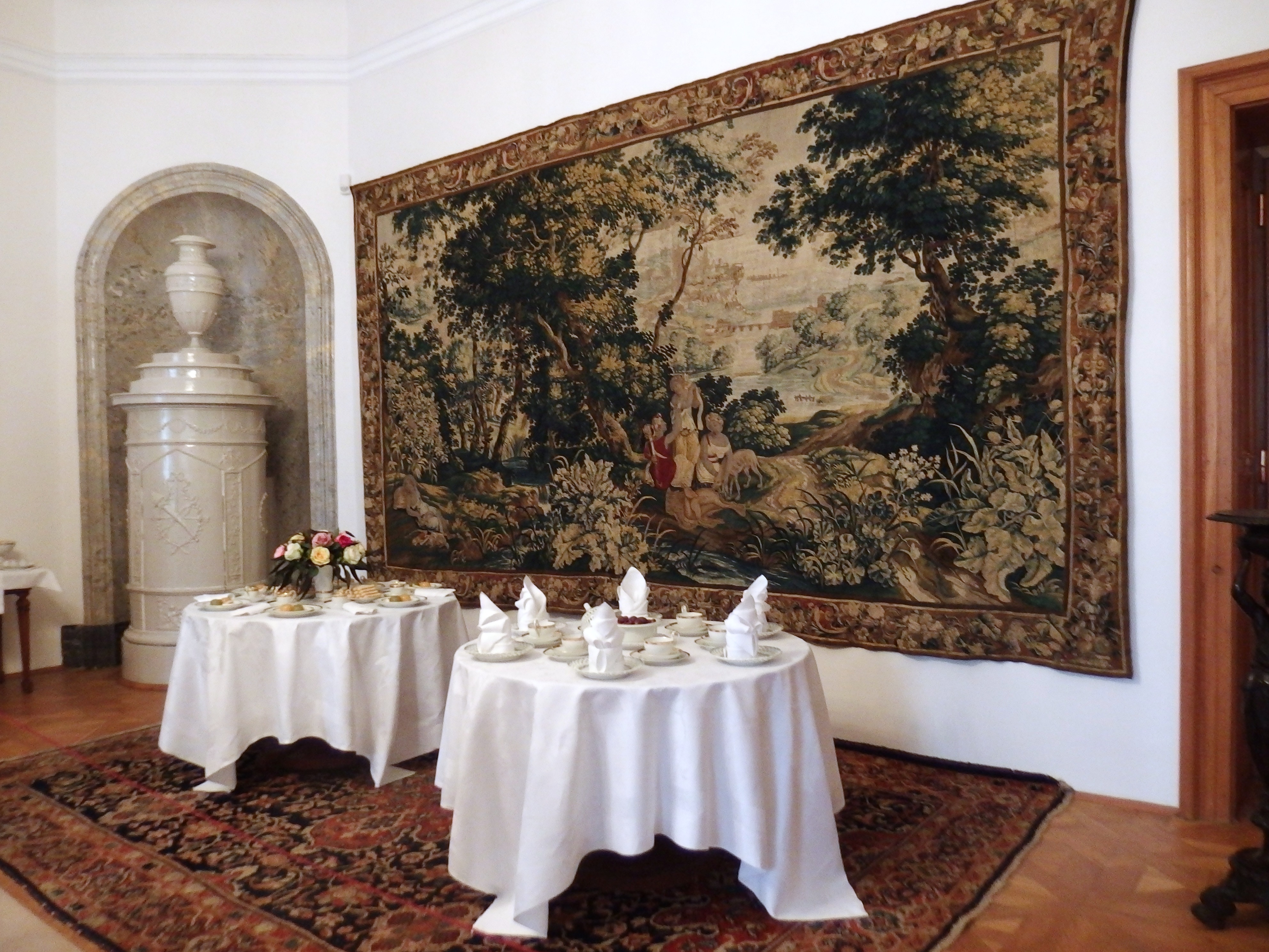 Náměšť nad Oslavou, Třebíč District, Czech Republic. Castle.